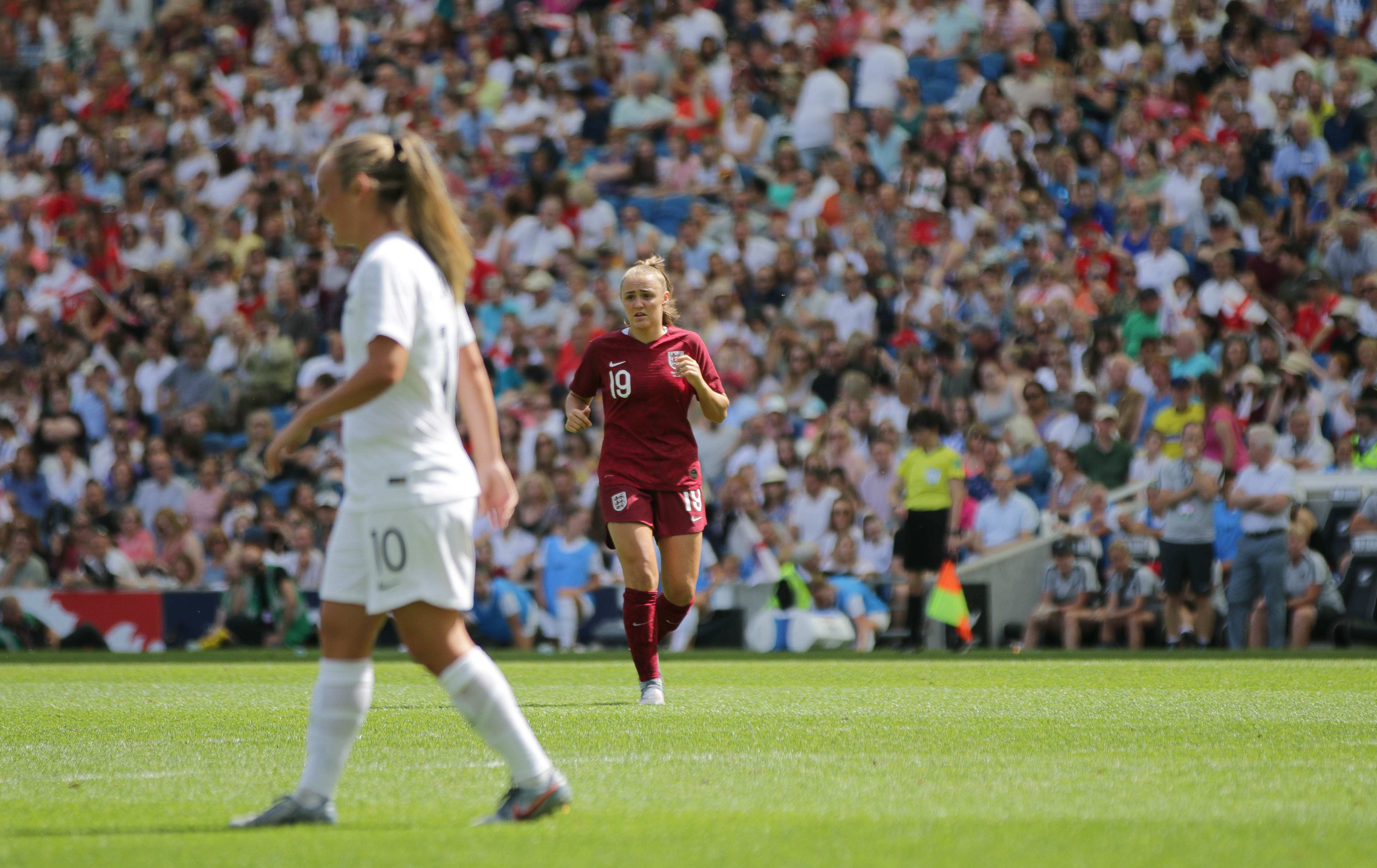 England Women 0 New Zealand Women 1 01 06 2019-1025.jpg